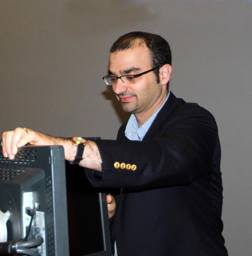 Professor Bryan Gaensler, guest speaker at Macarthur Astronomy Forum at University of Western Sydney, November 2011